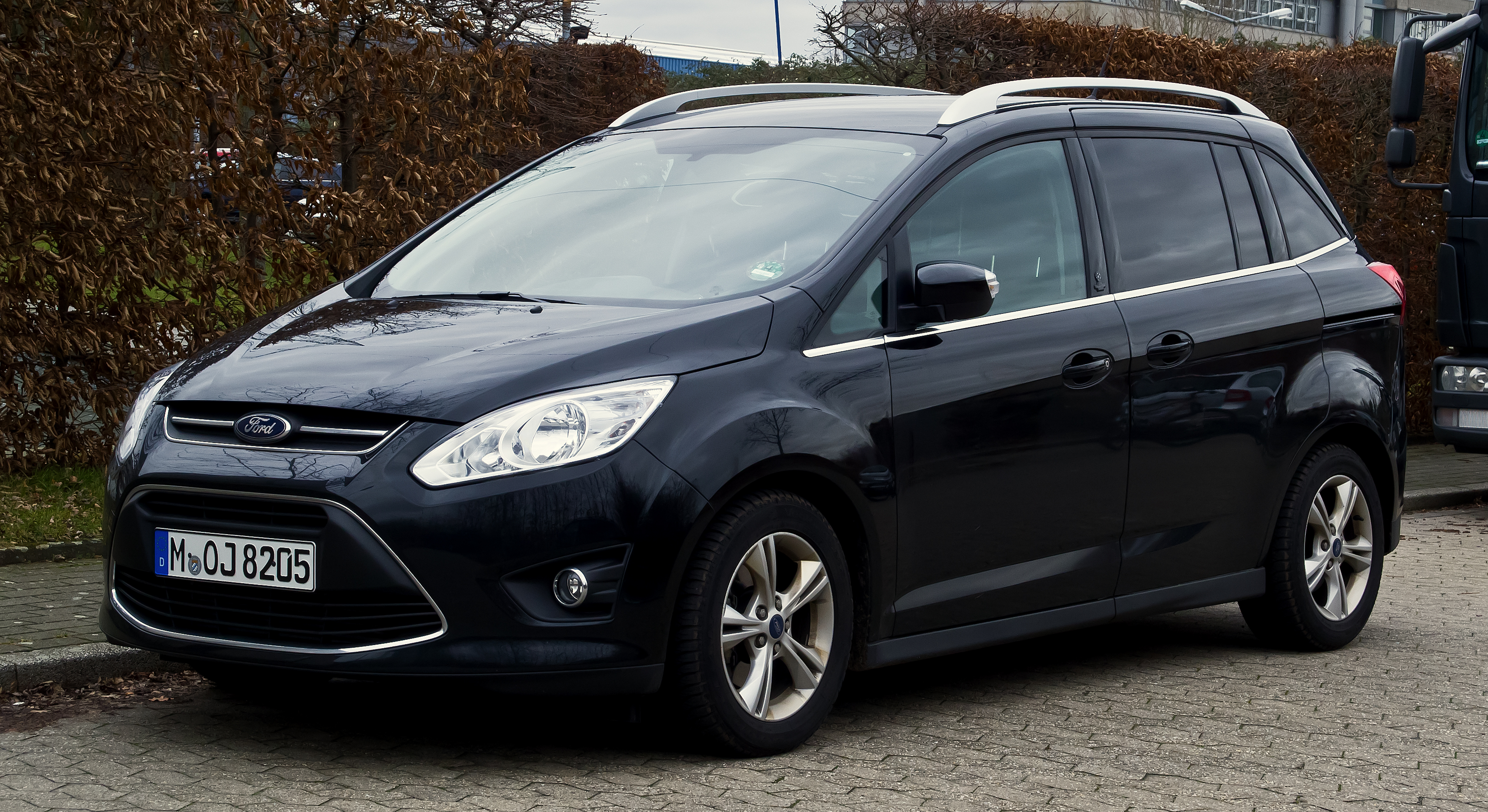 Ford Grand C-Max Champions Edition (II)